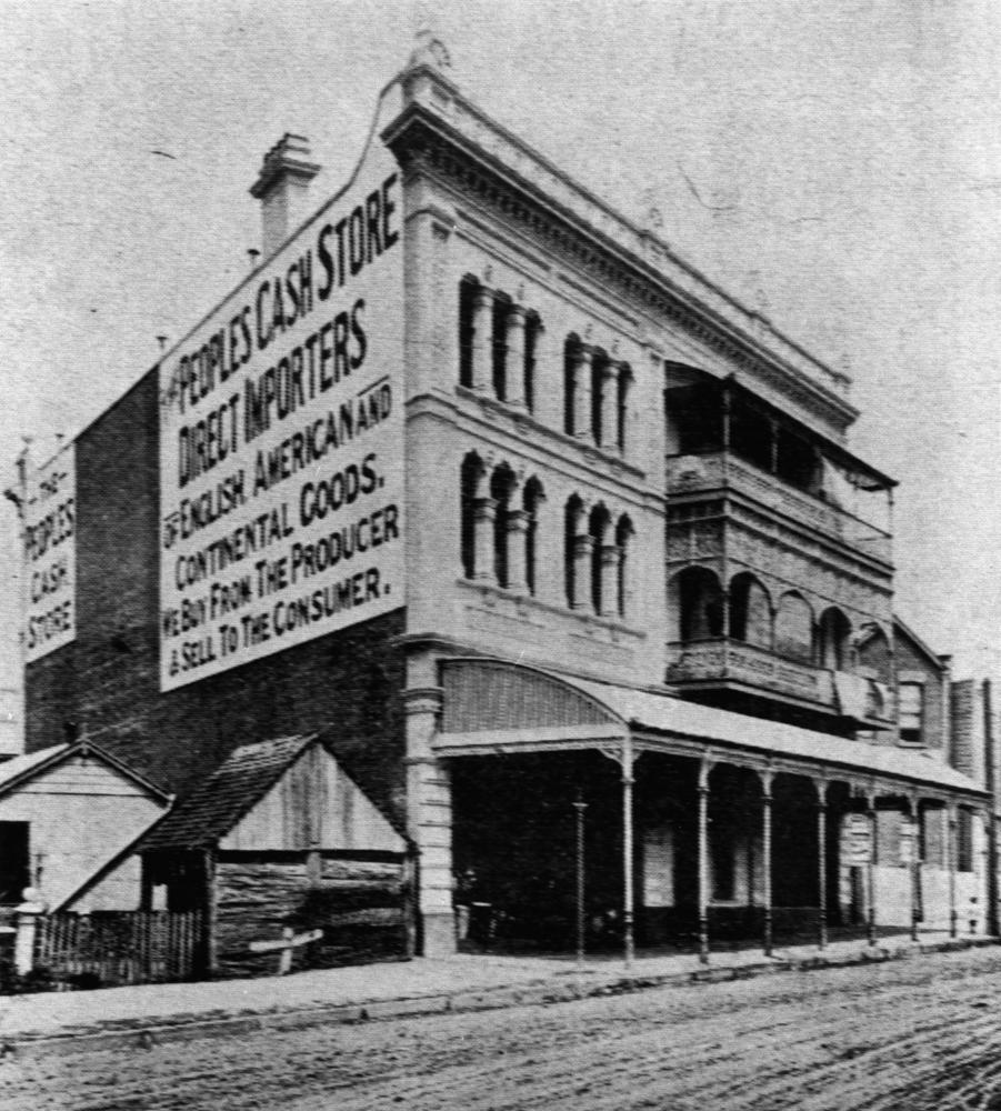 People's Cash Store at Fiveways, Wooloongabba, 1900. People's Cash Store on Stanley Street, Woolloongabba, consists of three storeys and has a large advertising sign on the side of the store.